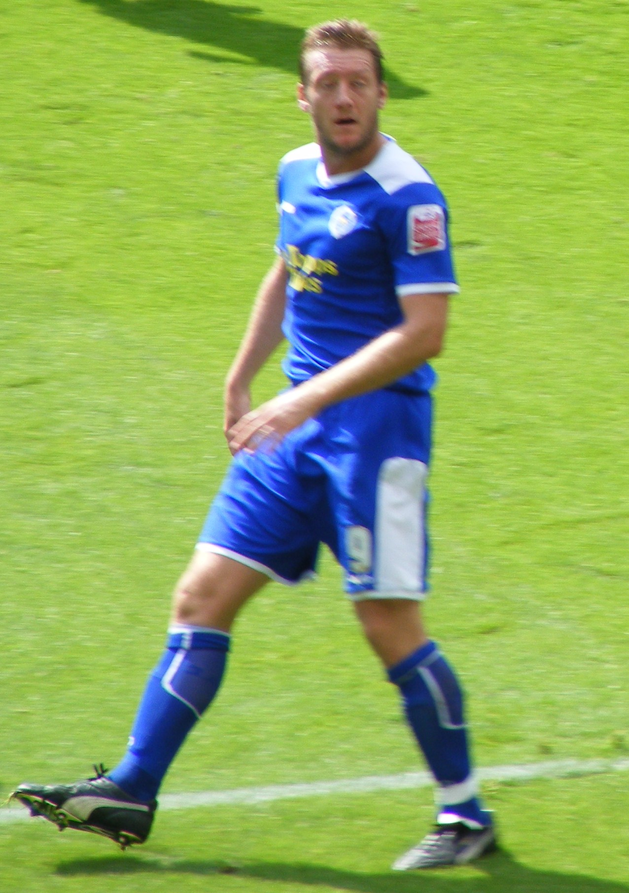 Steve Howard. Image cropped from original at Flickr.